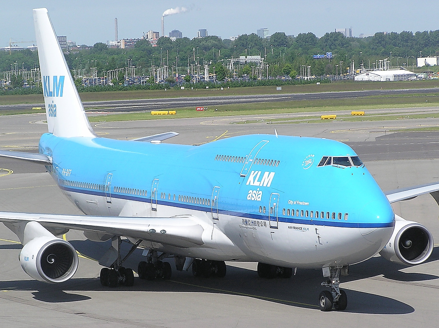 KLM Asia is going to taxi to gate F2